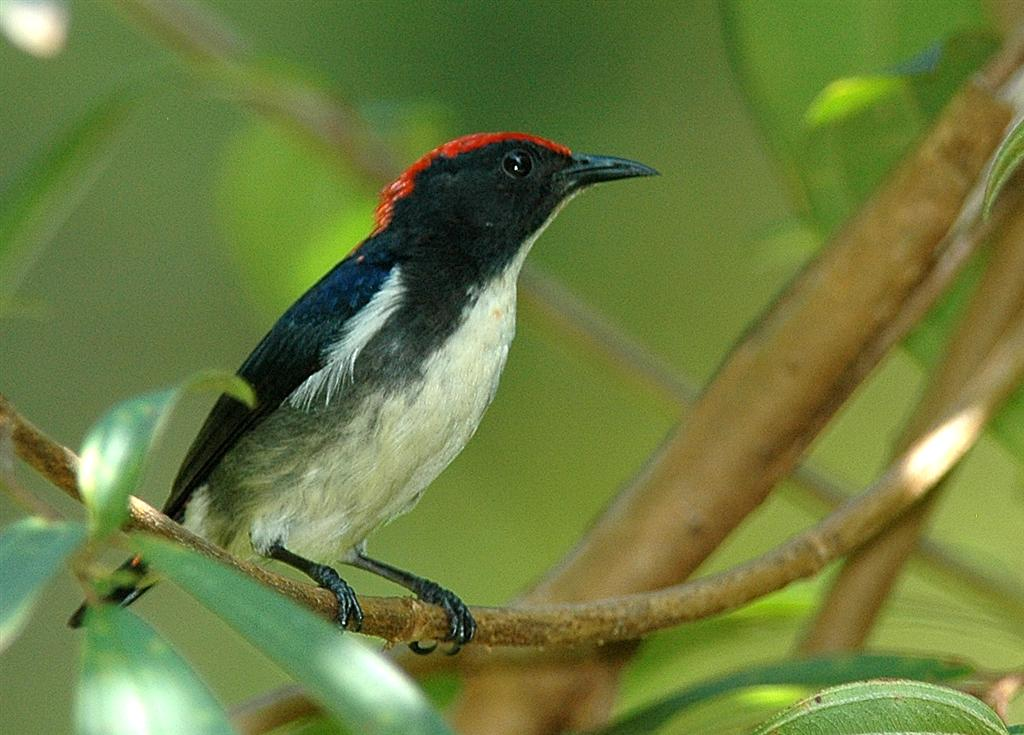 Scarlet-backed Fowerpecker (Male) (Dicaeum cruentatum)